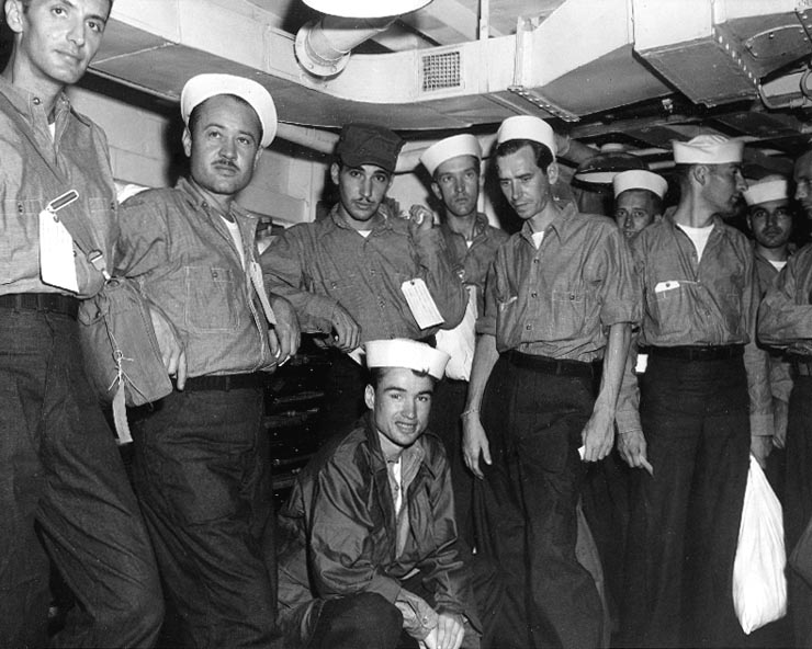 Dungaree-clad freed POWs aboard USS Reeves, 1945